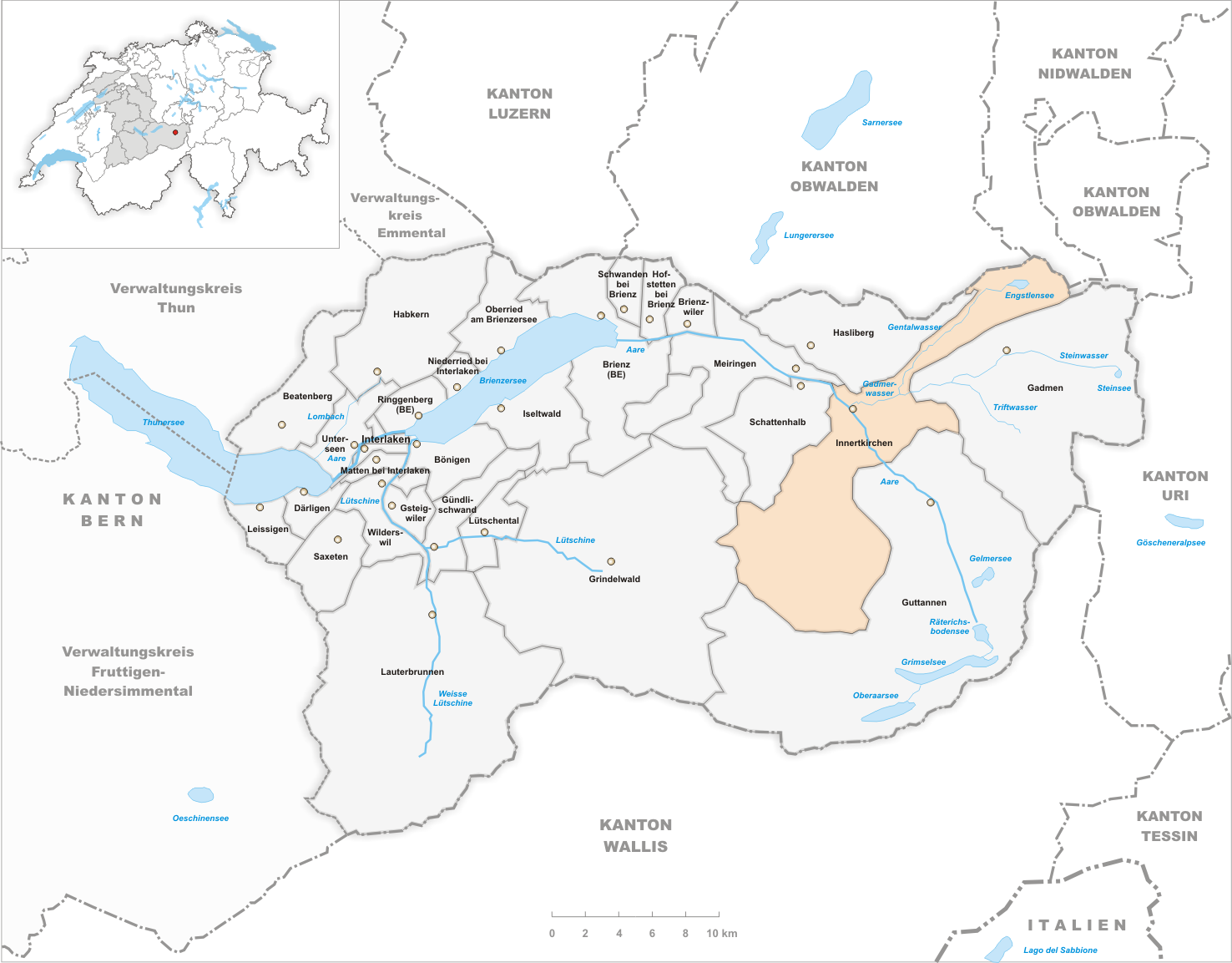 Municipality Innertkirchen